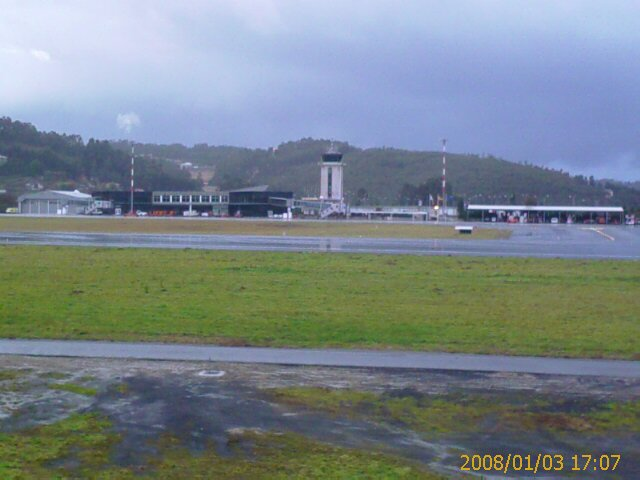 Front view of Coruña Airport